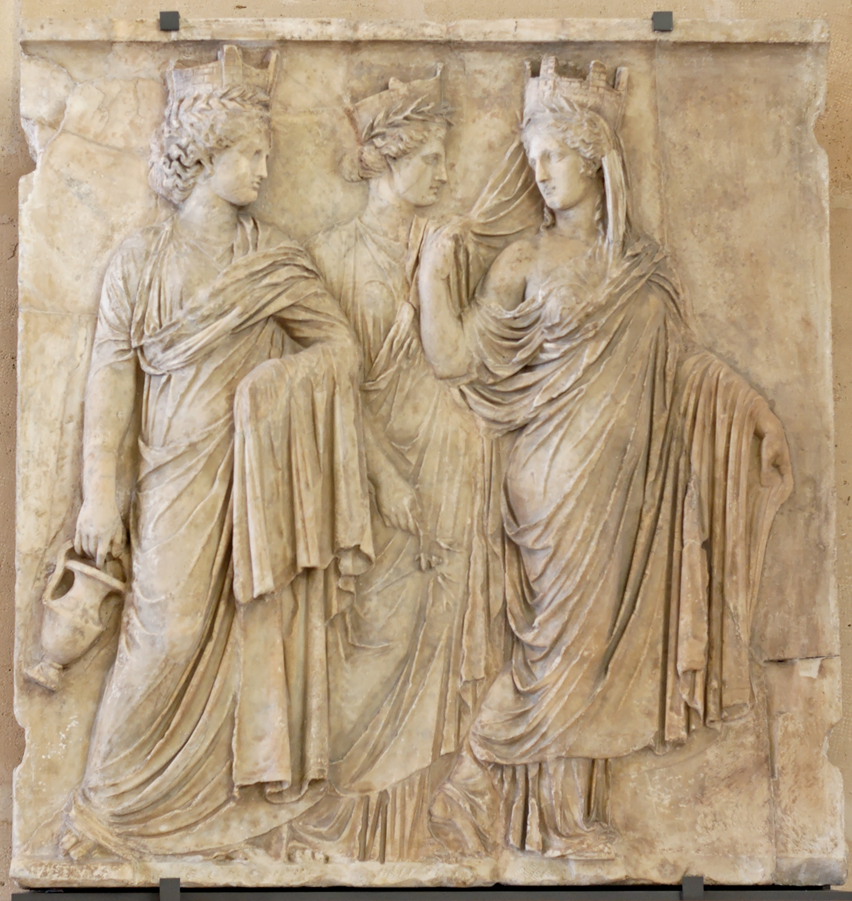 Relief known as "the three Tyches"—Tyche is the Greek goddess of Fortune; since the Hellenistic period, each city has its own Tyche, represented with a crown of ramparts. This relief, found at the Via Appia, is known since the 18th century and belonged to the Borghese collections. It may come from the Triopius, the funeral complex built by Herodes Atticus for his wife Annia Regilla.